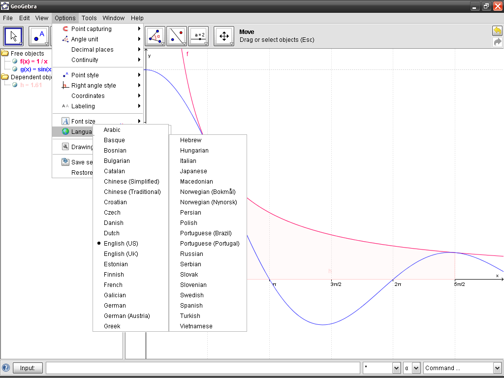 (merged) screenshots of GeoGebra 3.0.3.0 with f(x)=1/x and g(x)=sin(x)/x in the backgroung and the available languages from the menu